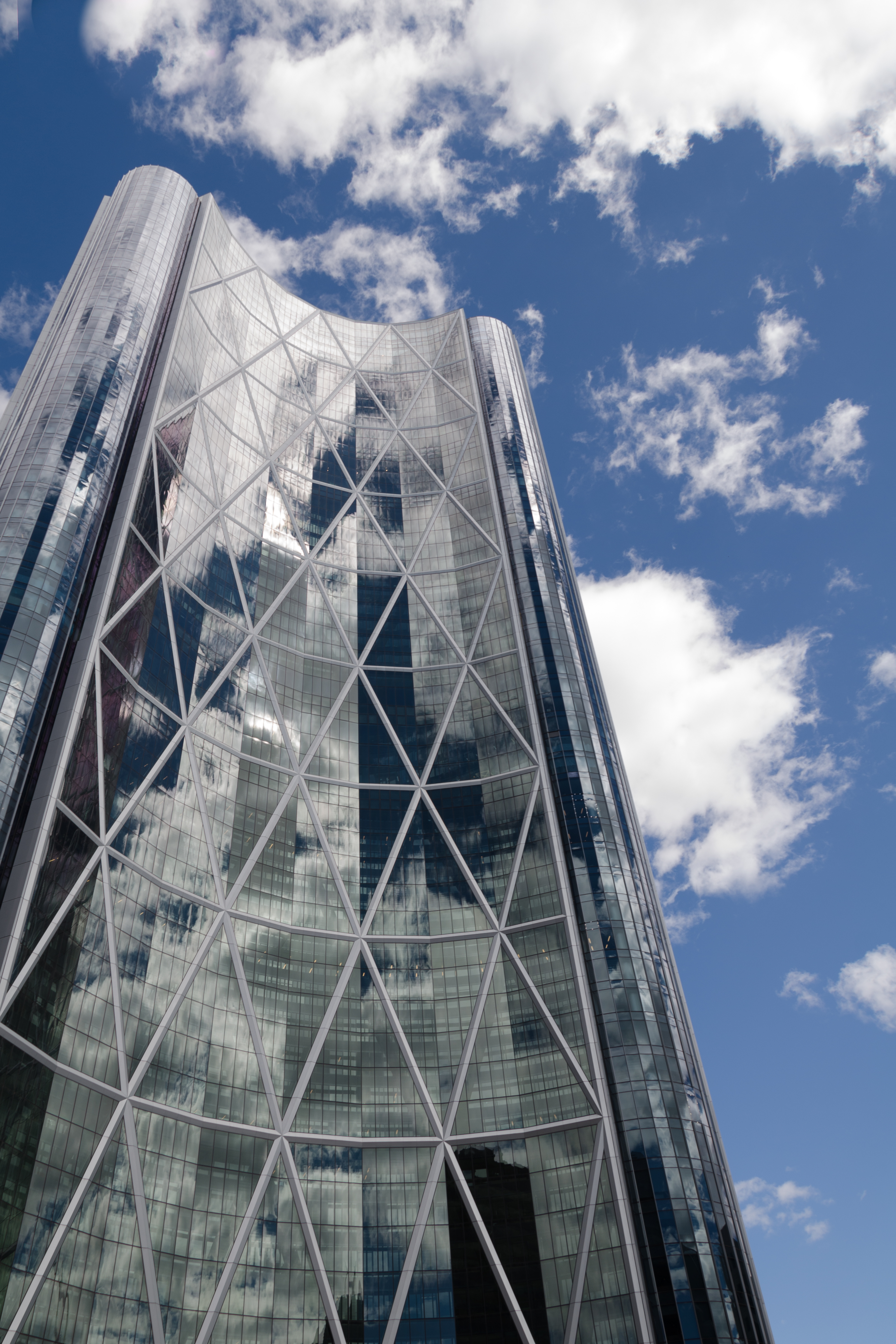 "The Bow" in Calgary